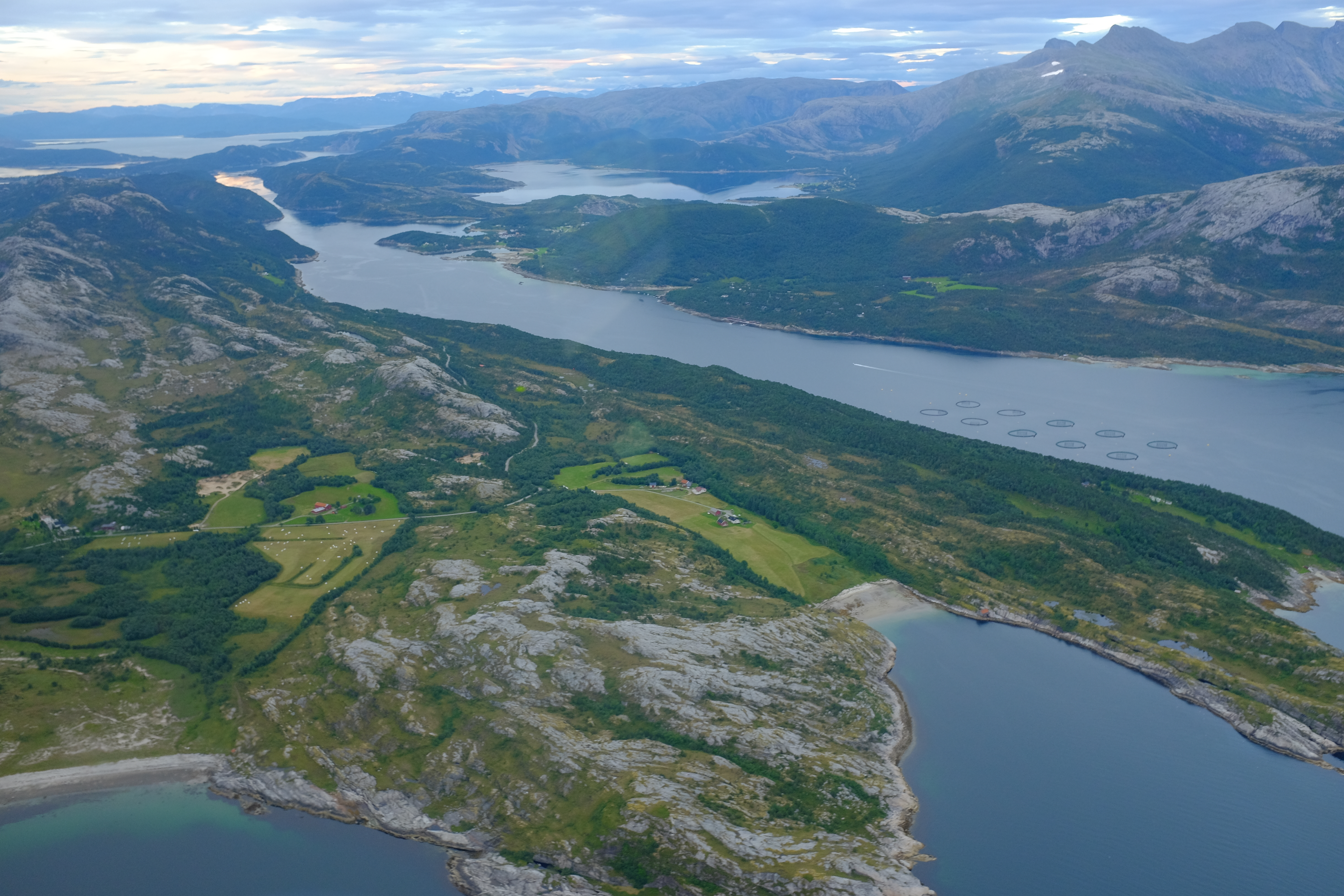 Indre Sundan is a four-kilometer drain in Bodø municipality in Nordland that separates the eastern part of Straumøya from the mainland. The trench runs from Saltstraumen and Svefjorden east to Sundstraumen in the southwest.